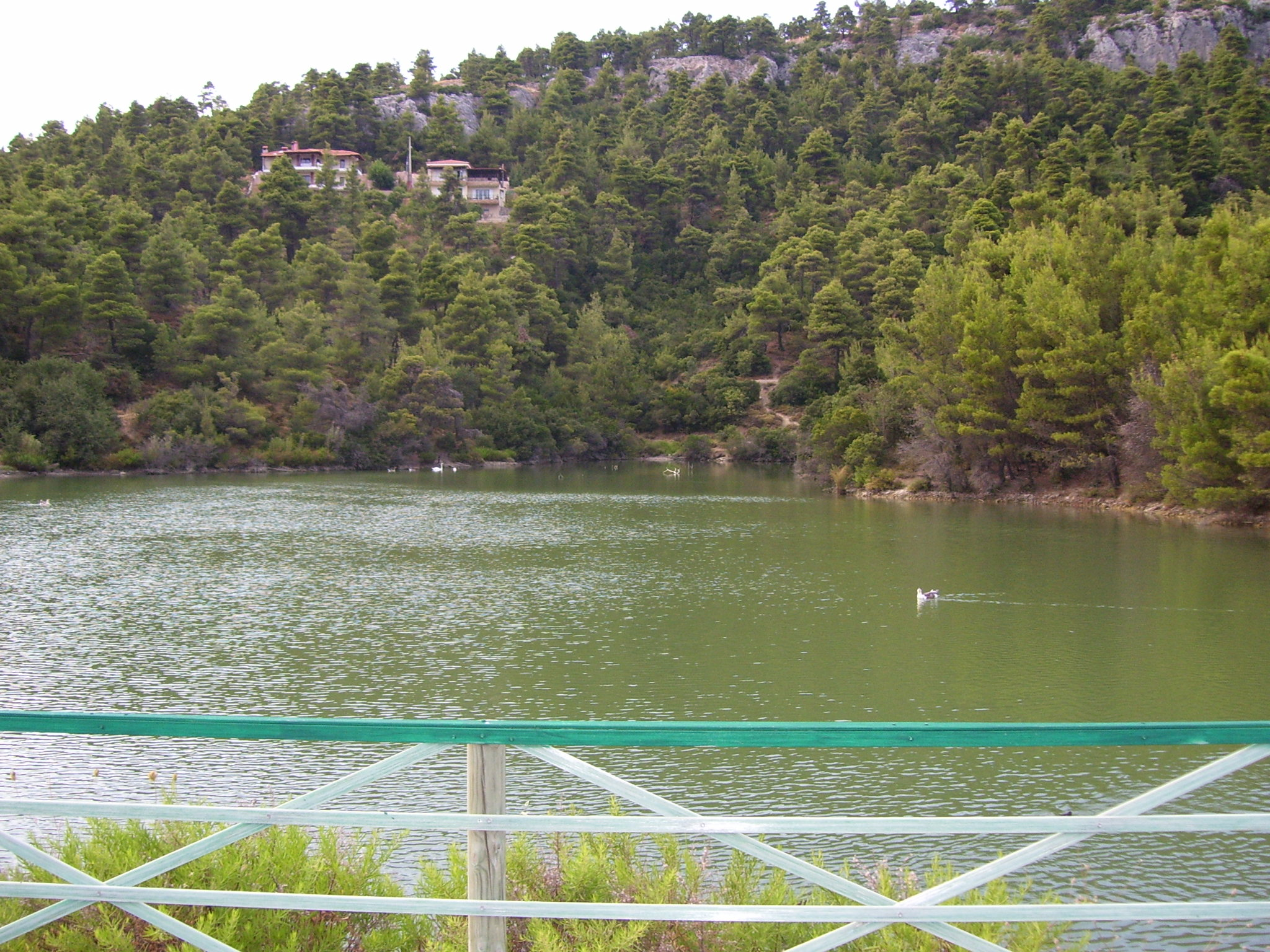 Lake Beletsi or Kithara in Parnitha mountain, Attica